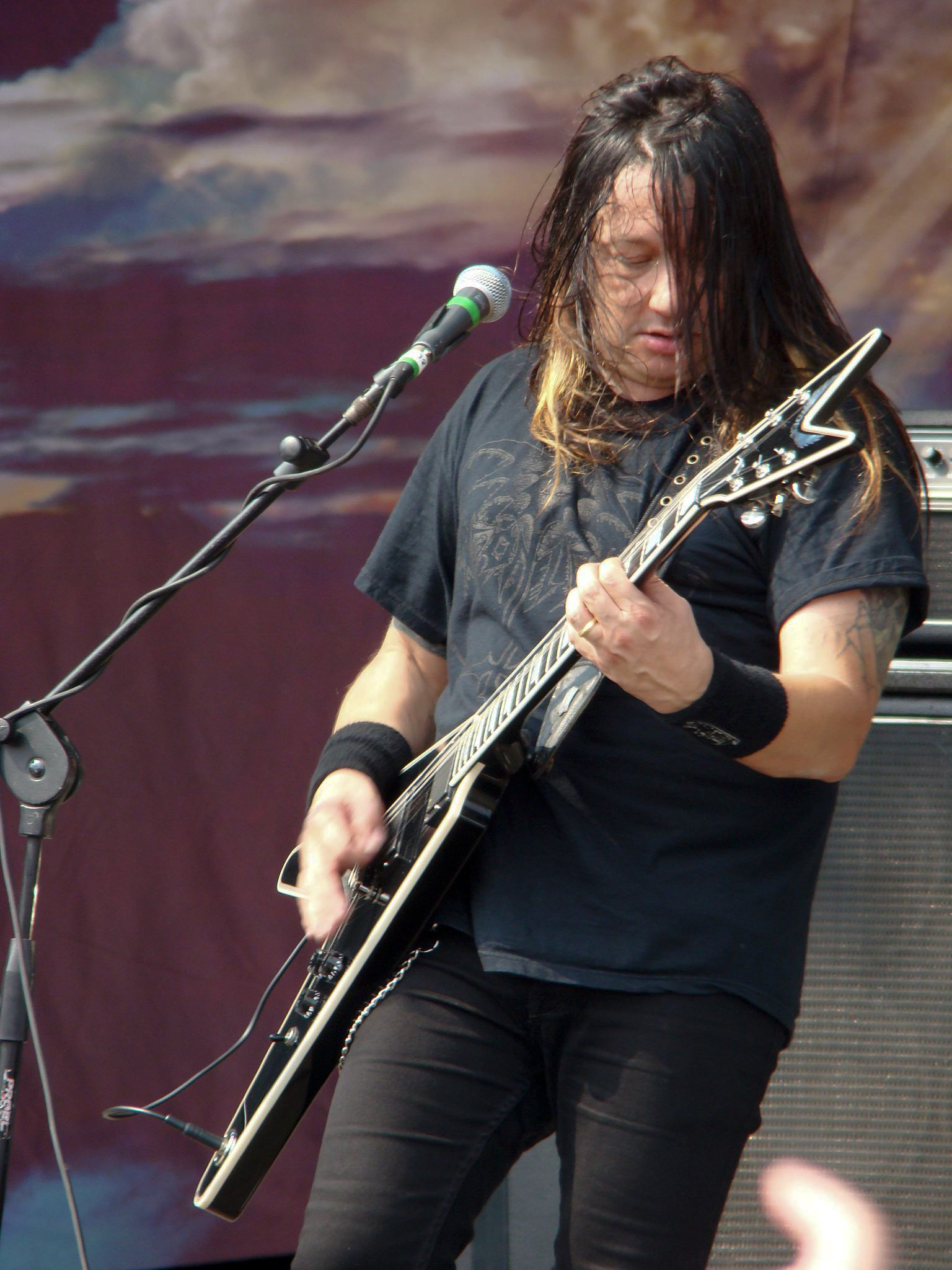 Eric Peterson (Testament) during Gods of Metal 2008